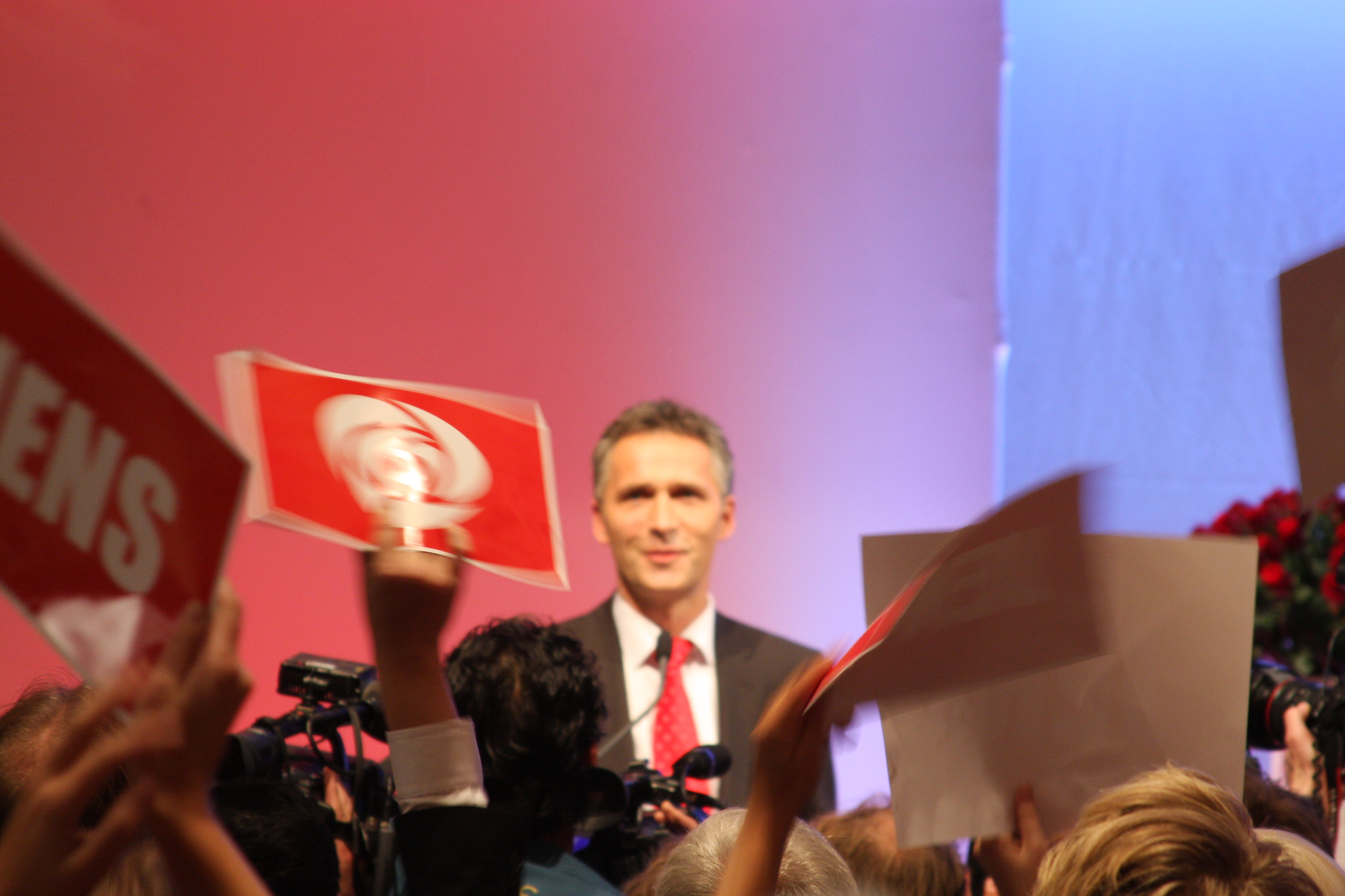 PM Jens Stoltenberg celebrated as electionvictor, by Labour party election night, Oslo, 14 sept 2009